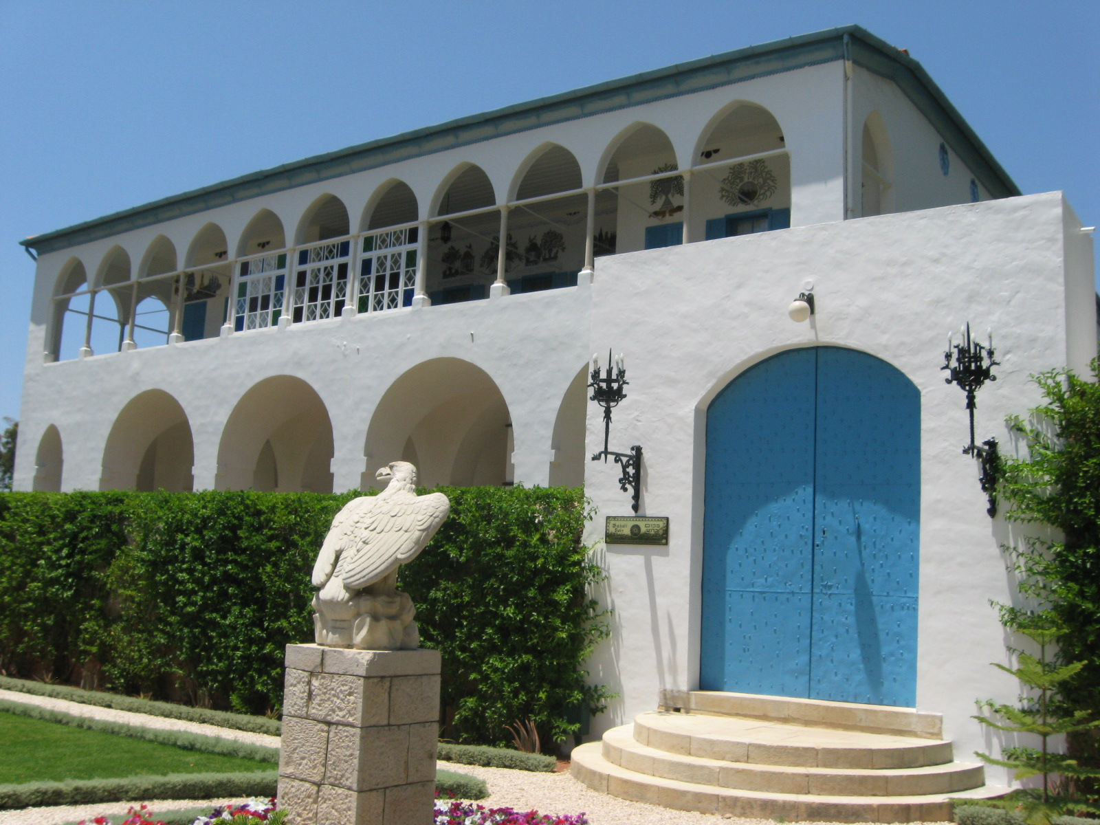 The Mansion of Bahjí where Bahá'u'lláh lived His final years.